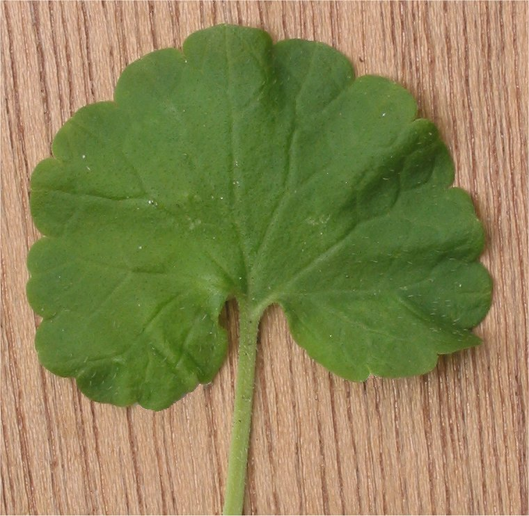 (nl: Hondsdraf blad) Glechoma hederacea leaf